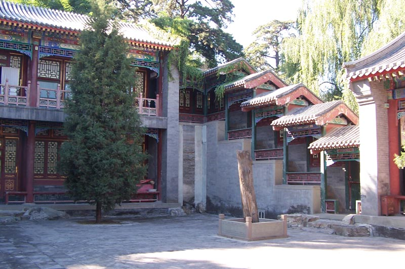 Danning Hall Summer Palace, Beijing.